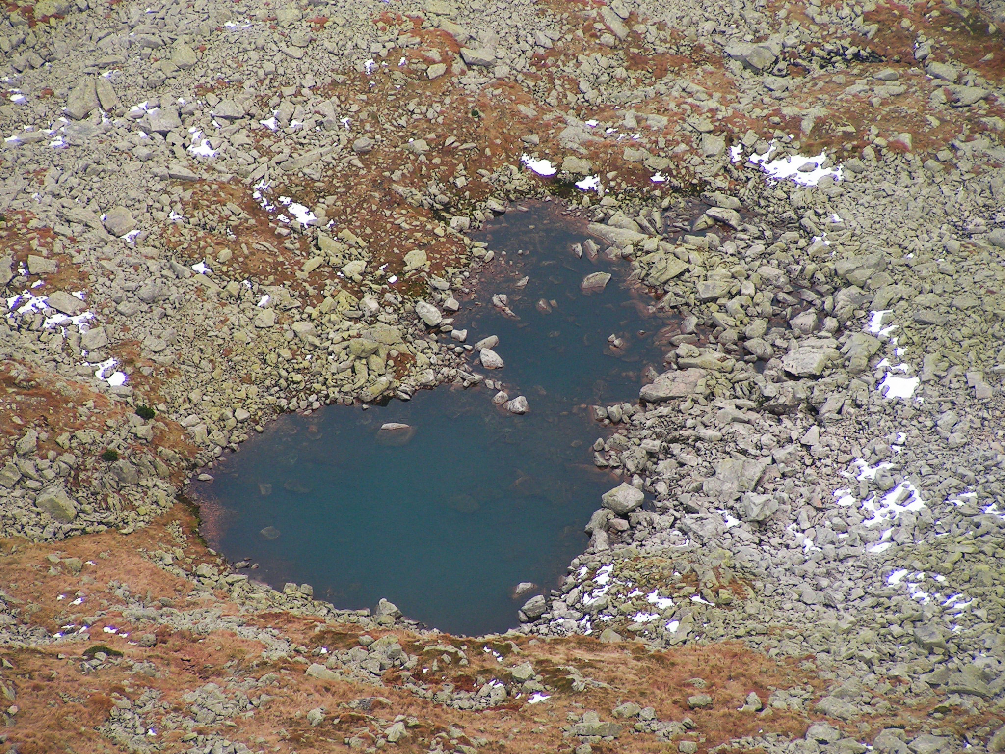 Žlté pleso seen from Jahňaci štít